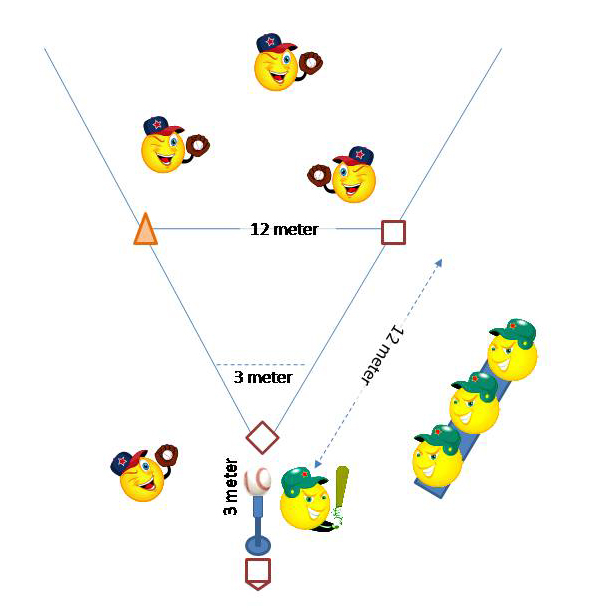 Lay-out of a Beeball playground